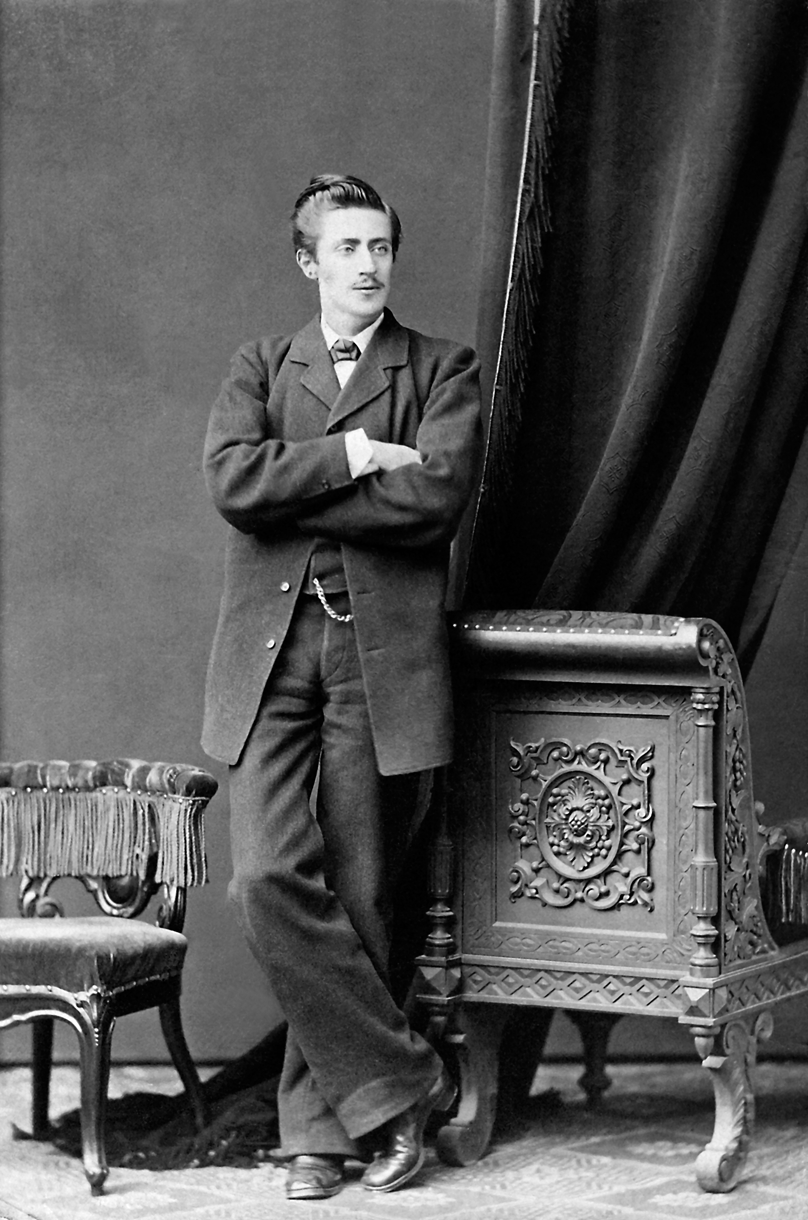 Author Verner von Heidenstam (1859-1940), at the age of 20